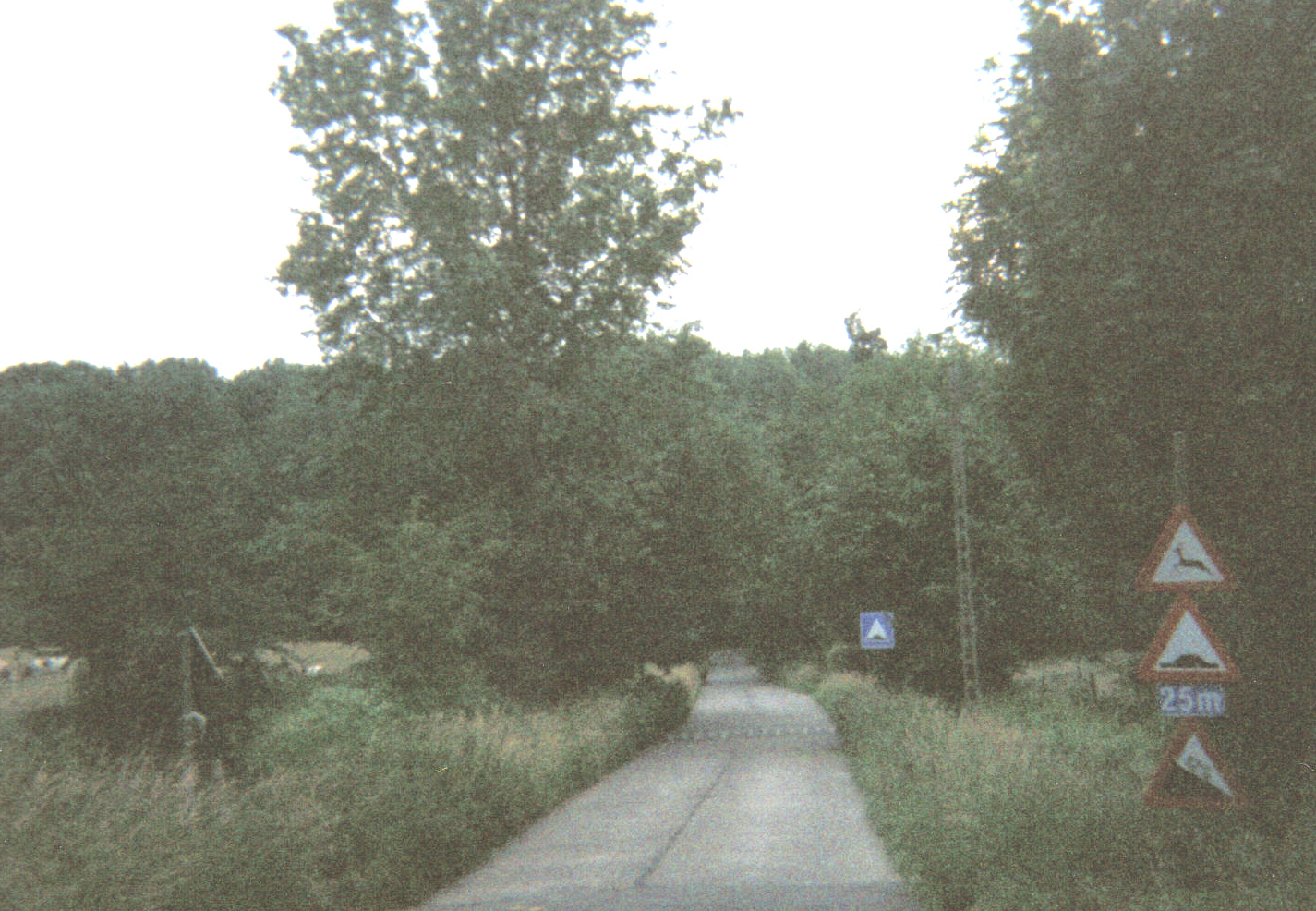 Braambrugstraat, a hill in greater Oudenaarde, Belgium, which is climbed in cyclism contests. The street runs through Bos t' Ename nature reserve. Here it is viewed from Mater, looking downwards into Ename.